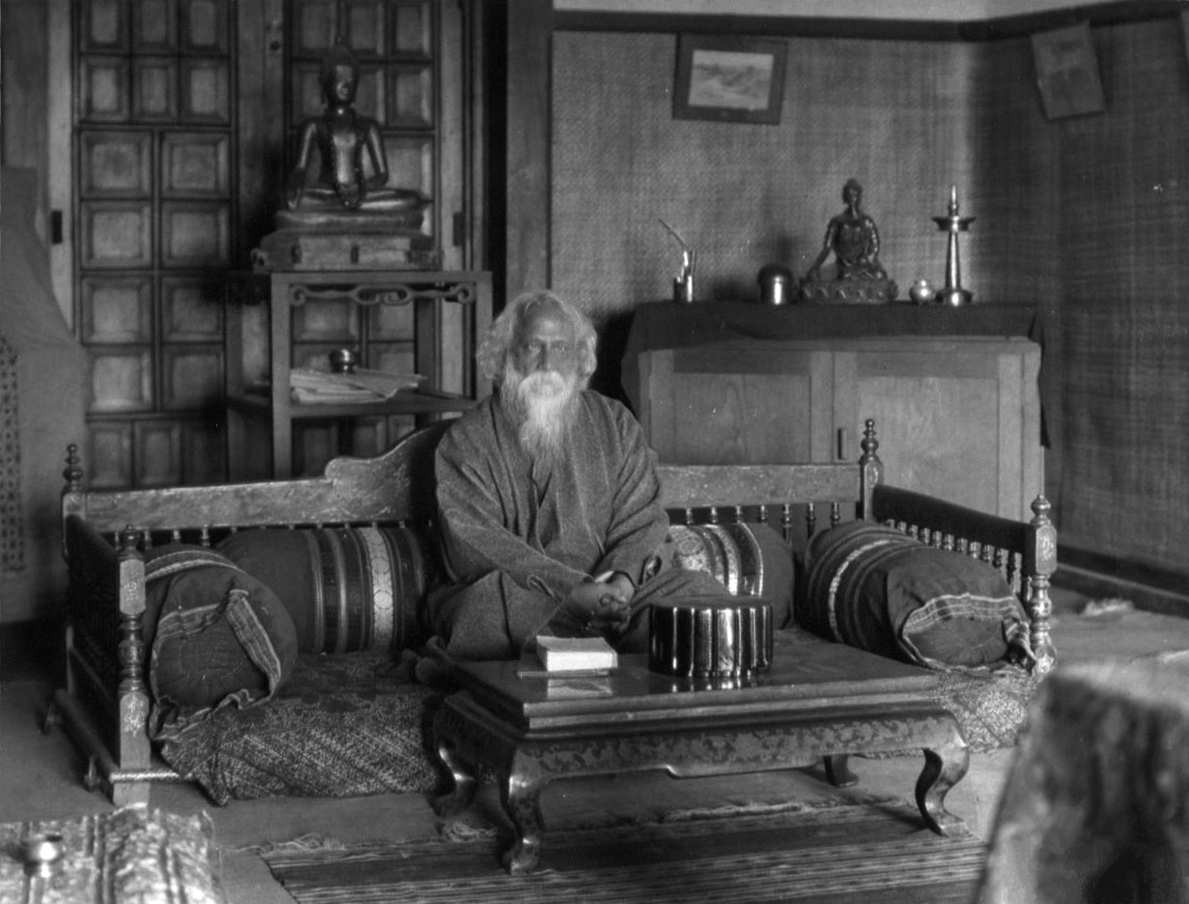 Rabindranath Tagore in 1925.